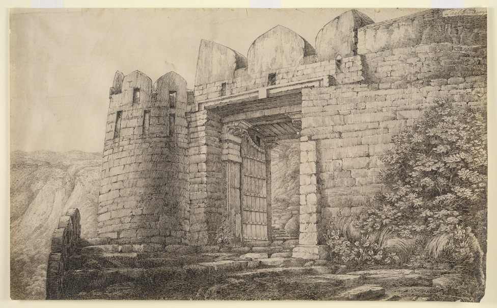 The sixth gate, Lal Darwaza, Kalinjar fort